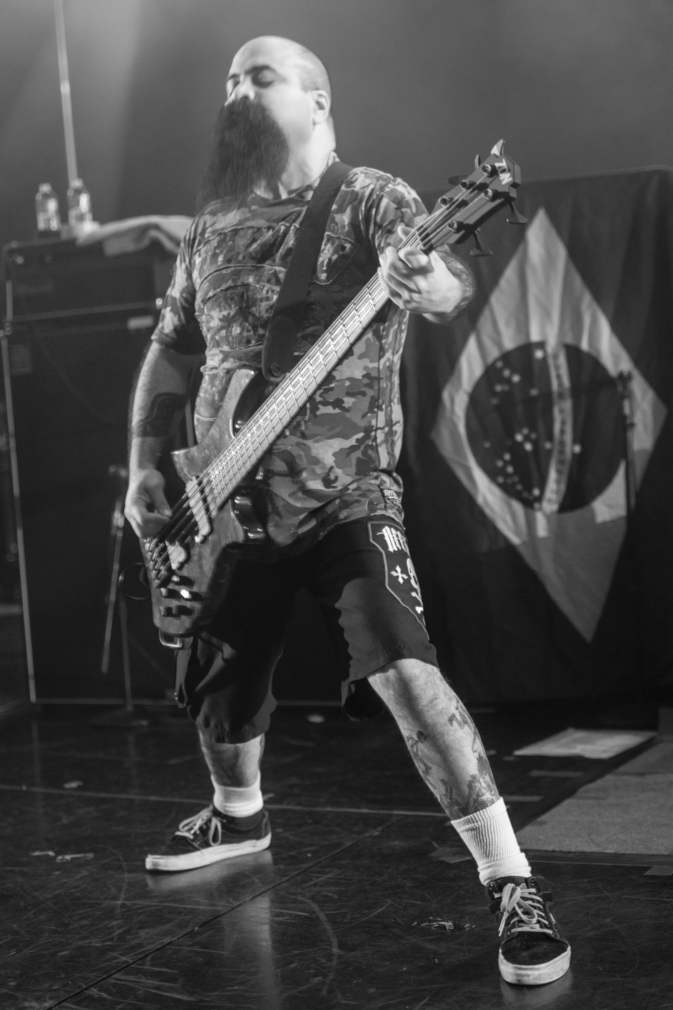 Soulfly performing at 70.000 tons of metal, january 2015